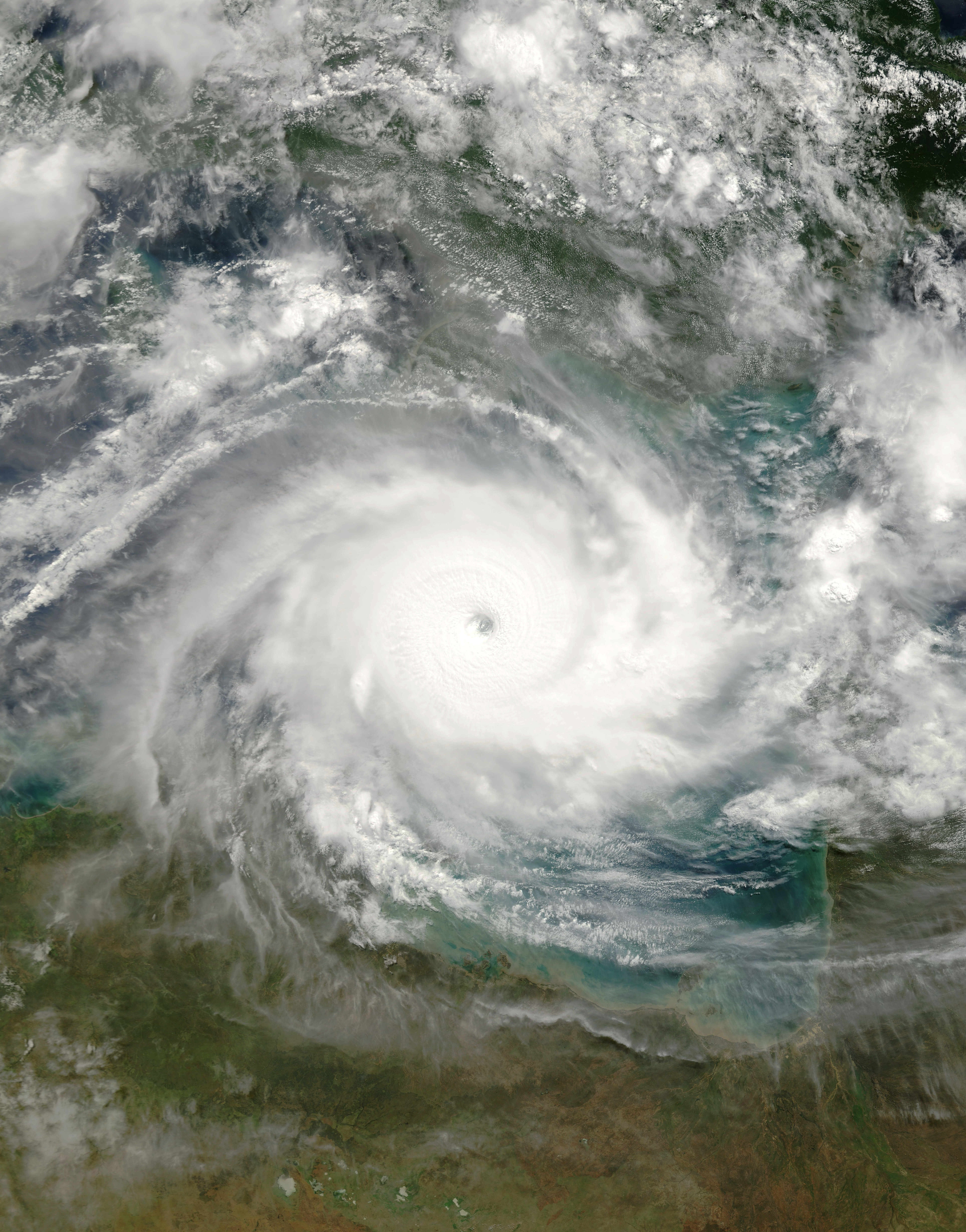 Severe Tropical Cyclone Monica on April 23, 2006